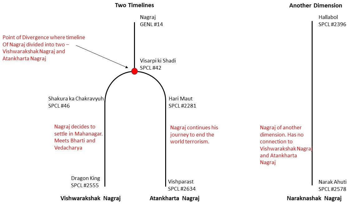 Currently, there are thee ongoing comic series of Indian comic superhero Nagraj by Raj Comics. This flowchart made by me explains the difference between the three series.